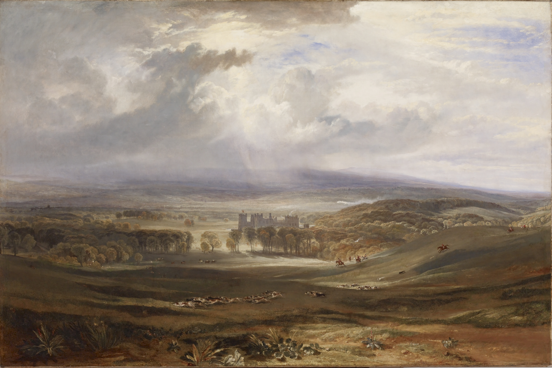 Before he painted Romantic subjects drawn from classical, biblical, literary, and contemporary sources, Turner specialized in topographical views. This work, commissioned by the third earl of Darlington, is one of Turner's most successful "house portraits." It is also one of the first works in which he fully exploits the dramatic potential of the sky. The earl, an avid sportsman who reportedly hunted six days a week, may have influenced Turner's rendering of the scene. When the painting was first exhibited at the Royal Academy in 1818, it included a mounted huntsman in the foreground. Turner subsequently painted over this figure after his work had been denounced as a "detestable fox-hunting scene." Raby Castle, a ca. 1380 structure, is located in County Durham, England.